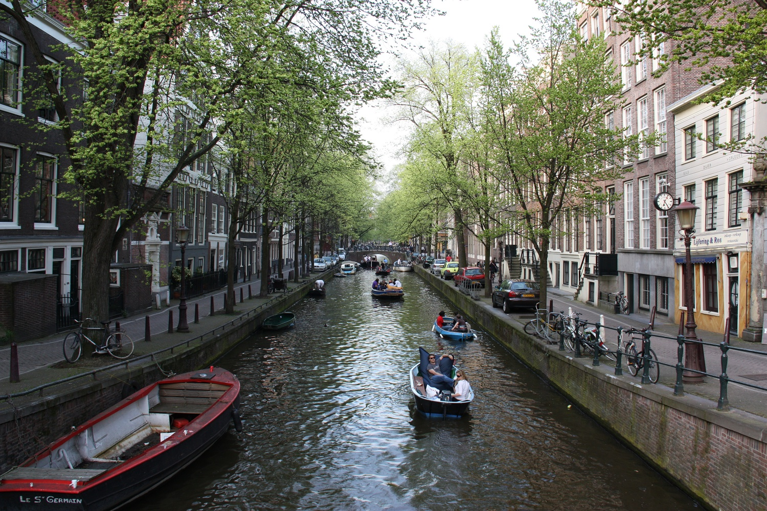 A canal in Amsterdam, The Netherlands. Oudezijds Achterburgwal nearby no. 212